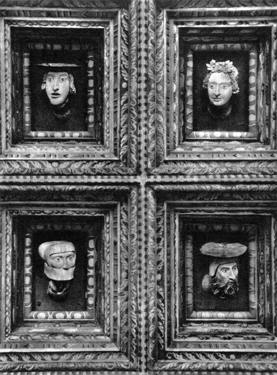 Heads from the ceiling of the Wawel Castle